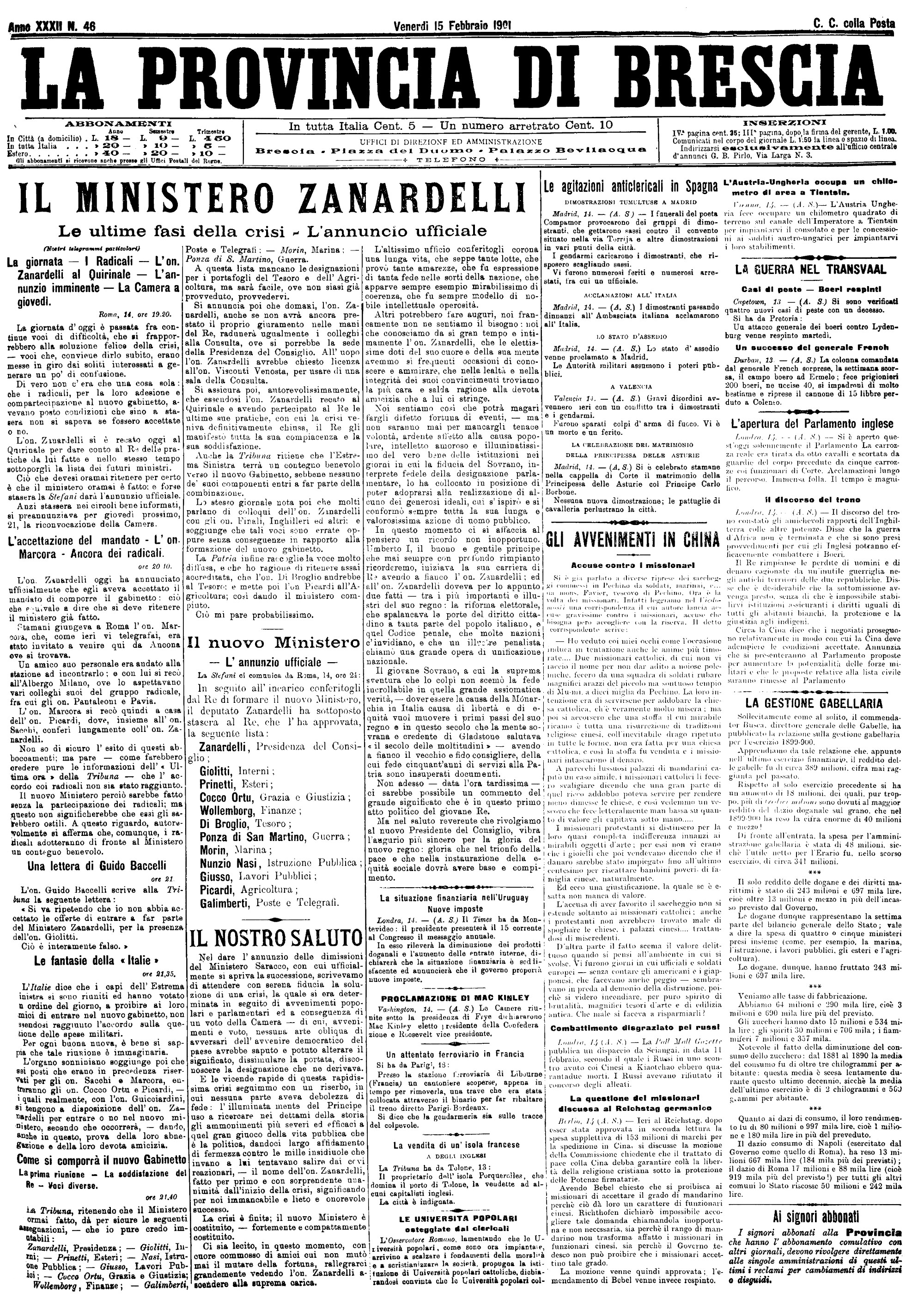 Front page of «La Provincia di Brescia» edited in 15th february 1901. Zanardelli, founder of the newspaper, was nominated President of the Council of Ministers of the Kingdom of Italy.